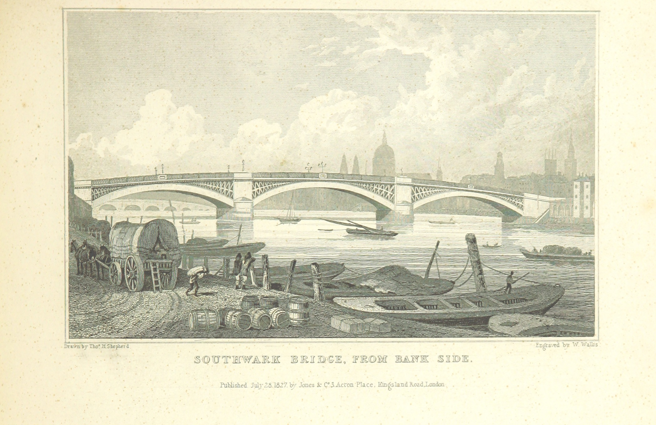 View of the original Southwark Bridge, designed by John Rennie and opened in 1819. The bridge was later replaced by a new bridge, built between 1913 and 1922.